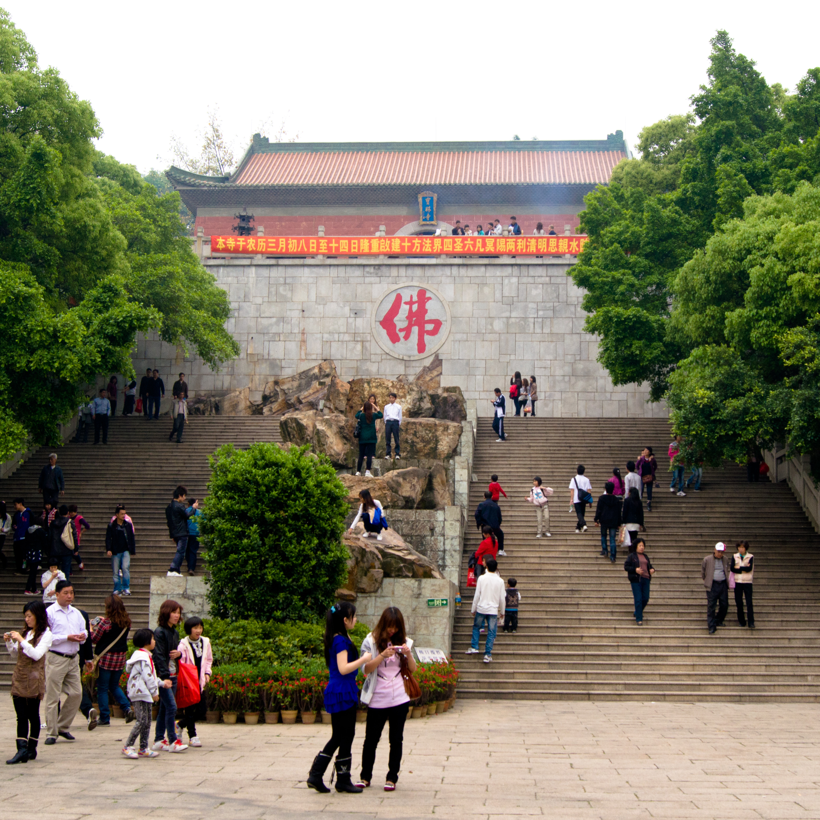 Shunde Baolin Temple, taken on Qingming Festival, April 5, 2011